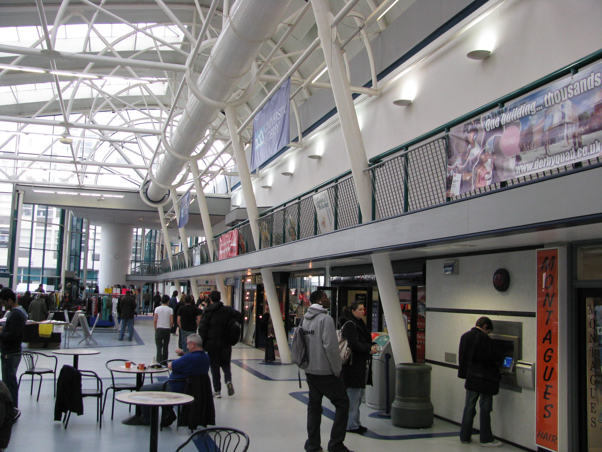 The Atrium, part of the Kendelstone Road site of the University of Derby.